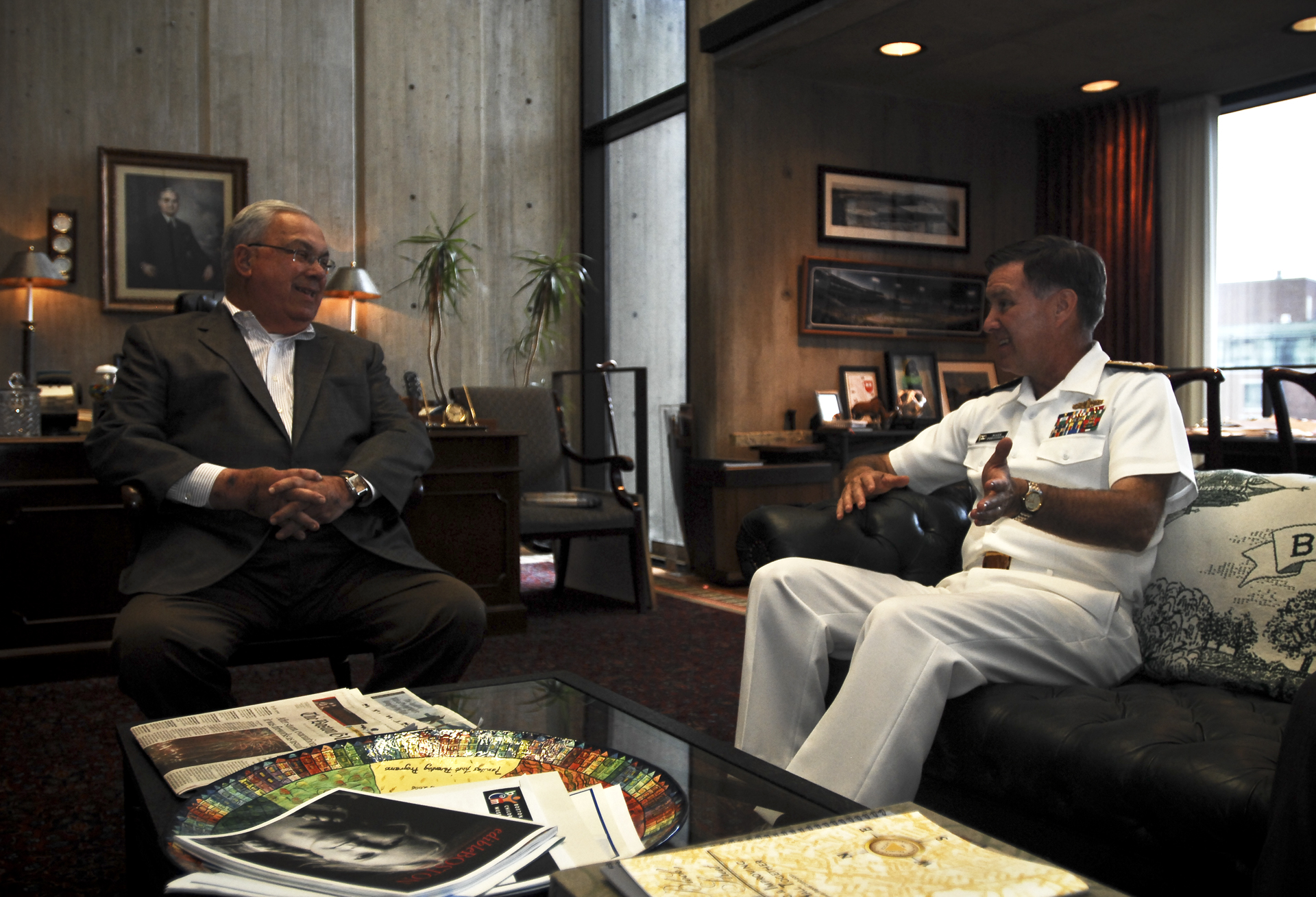 BOSTON (July 05, 2012) Vice Chief of Naval Operations, Adm. Mark Ferguson, meets with the Mayor of Boston, Tom Menino, during Boston Navy Week 2012. Boston Navy Week is one of 15 signature events planned across America in 2012. The eight-day long event commemorates the Bicentennial of the War of 1812, hosting service members from the U.S. Navy, Marine Corps and Coast Guard and coalition ships from around the world. Boston Navy Week is being held in conjunction with Boston Tall Ships and the commemoration of the bicentennial of the War of 1812. (U.S. Navy photo by Mass Communications Specialist 1st Class Mark O'Donald/Released) 120705-N-BX435-058 Join the conversation navylive.dodlive.mil